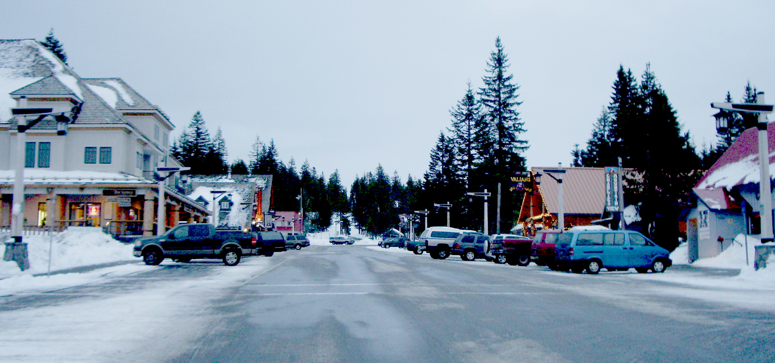 Central Government Camp, Oregon in winter